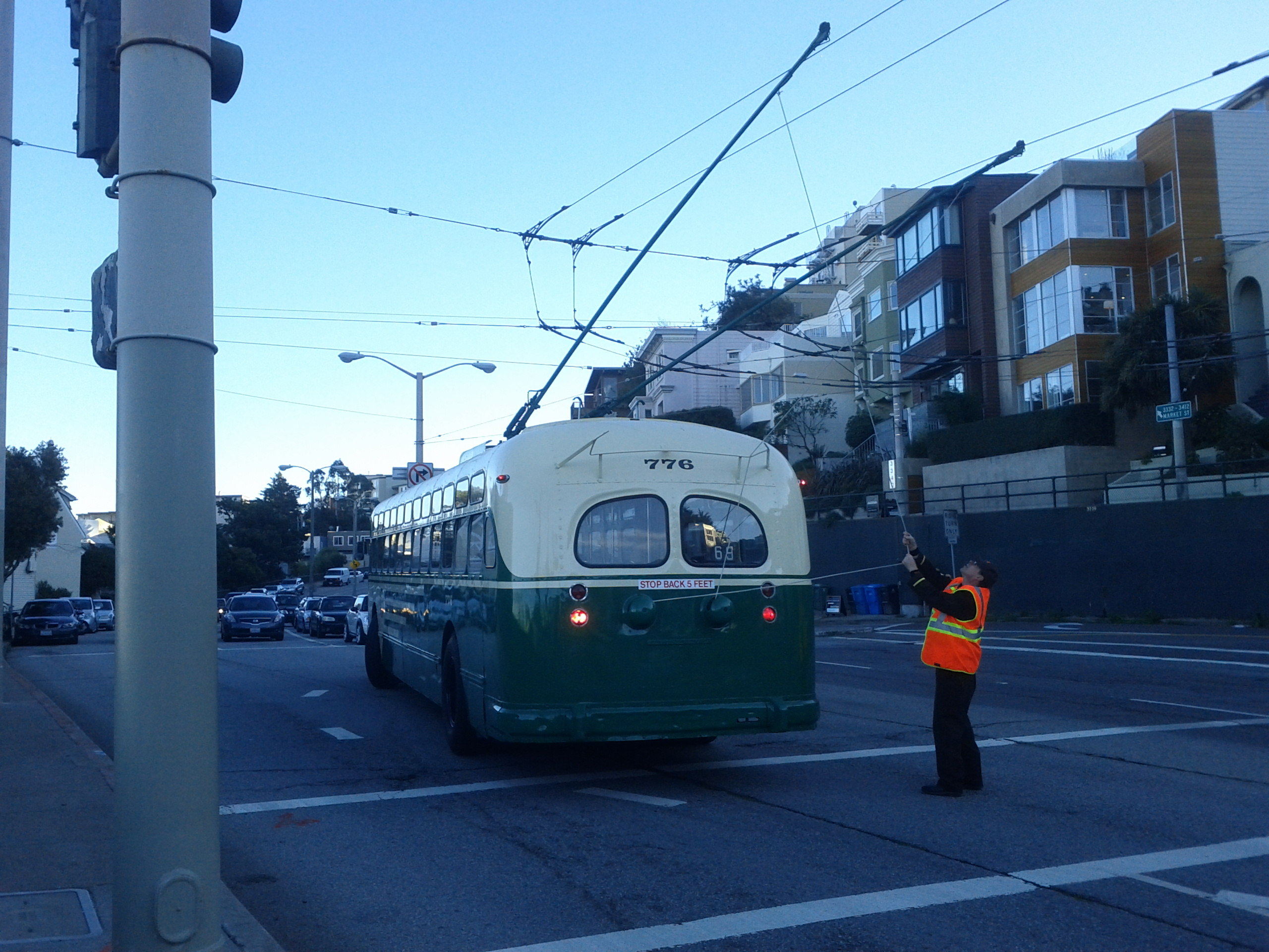 776's poles fall off the wire at Market and Clayton